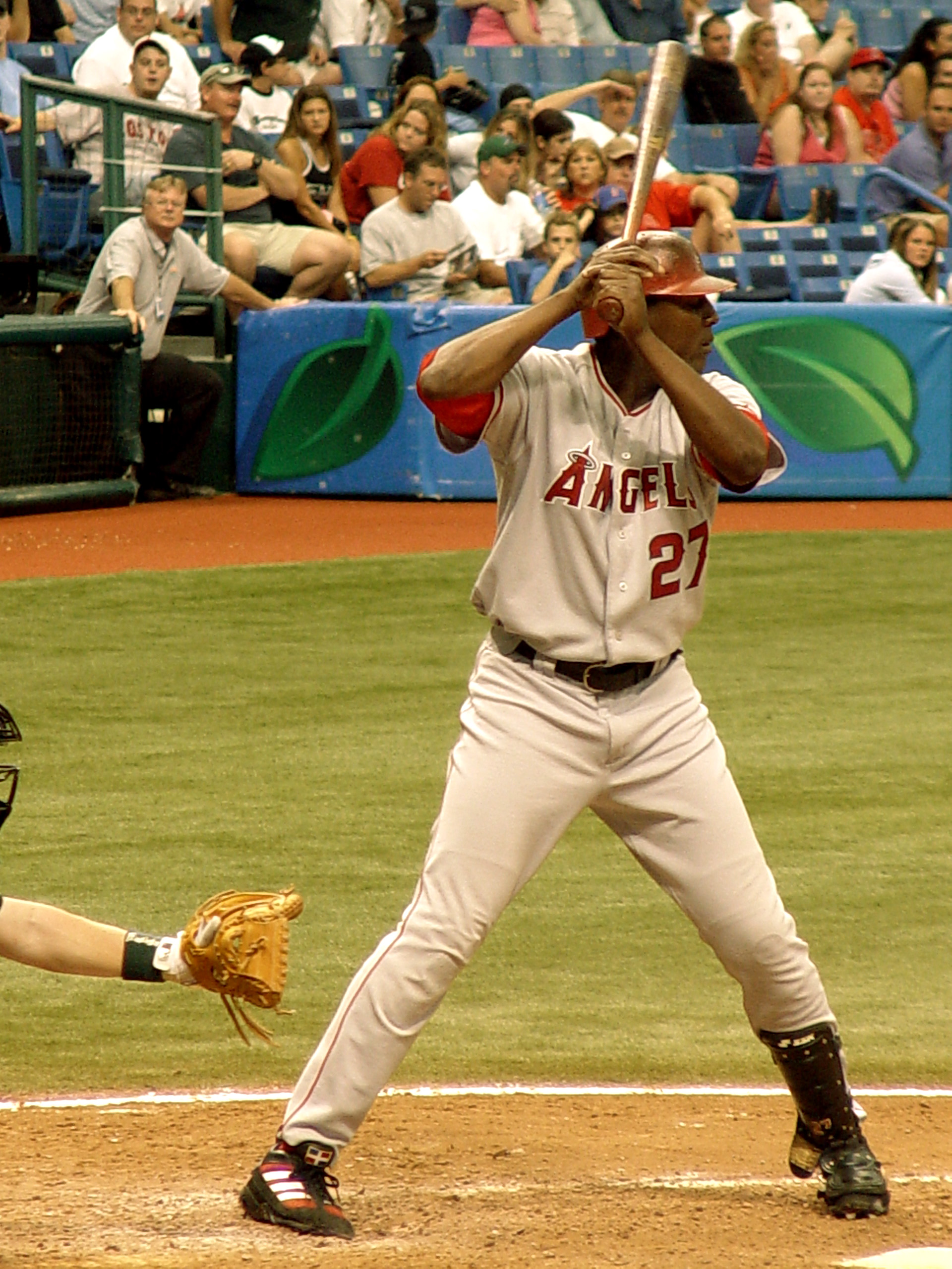 Vladimir Guerrero at bat, August 28, 2005. 23:14, 28 August 2005 . . Googie man . . 1920×2560 (1,180,138 bytes)